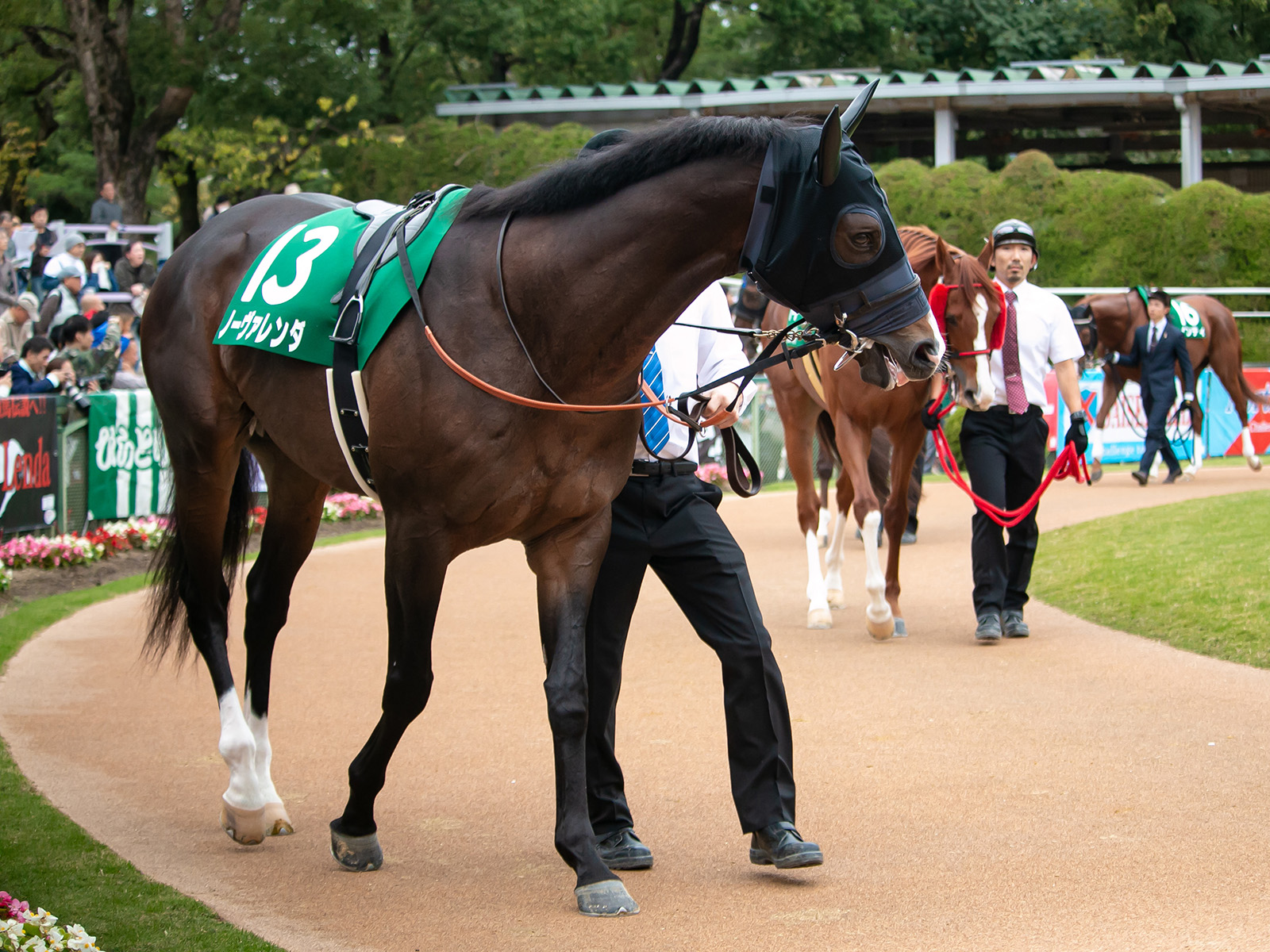 Nova Lenda(JPN), Racehorse of Japan.